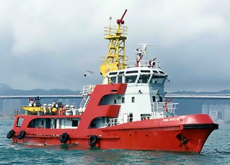 Fireboat No.6 In service:1981-2005 Builder:Hong Kong Chung Wah Shipbuilding Operators:Hong Kong Fire Service Department 中文（香港）: 六號滅火輪 服役:1981-2005 製造廠:香港中華造船廠 操作:香港消防處